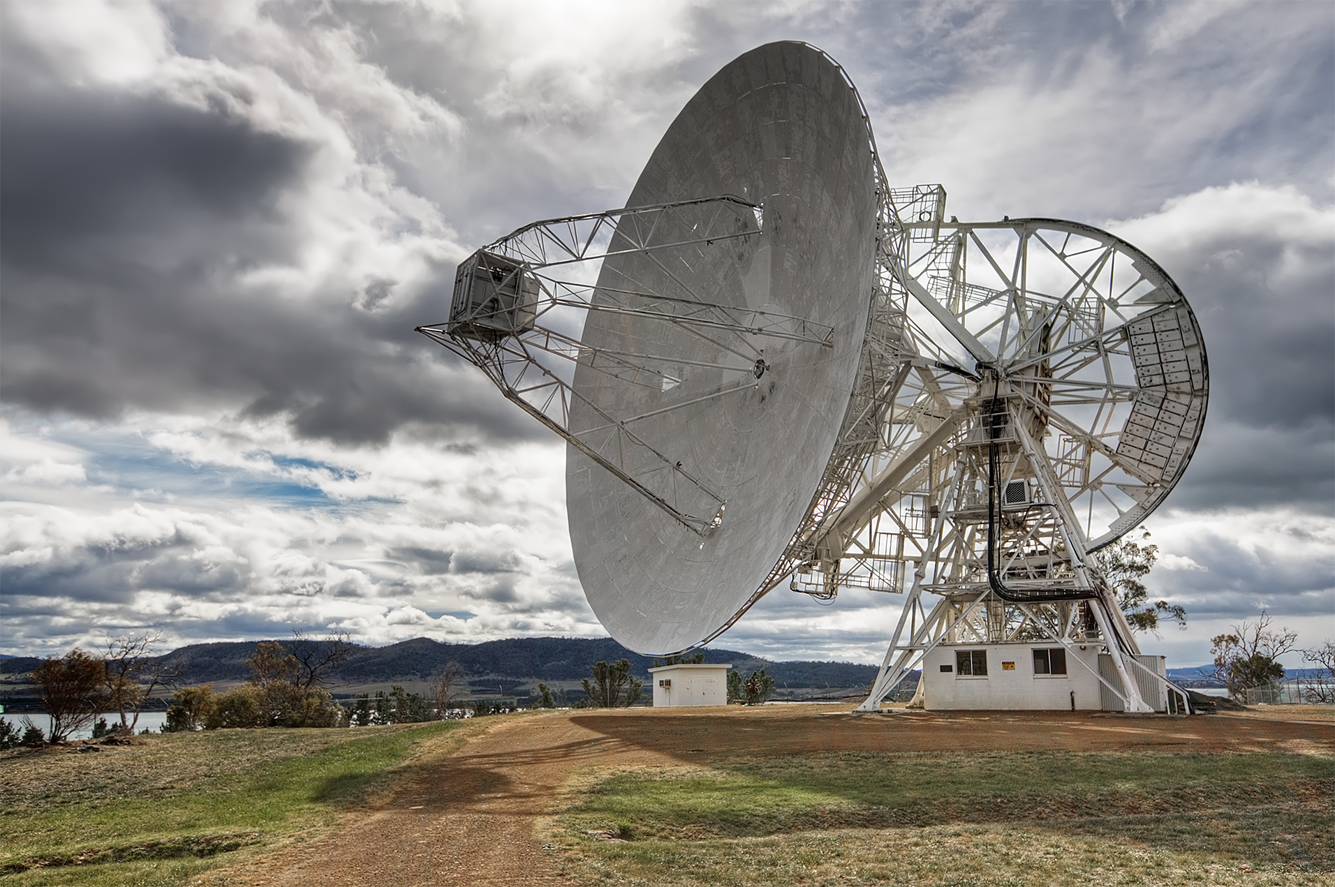 The 26m Radio Telescope at Mount Pleasant Radio Observatory, Tasmania, Australia Camera data Camera Canon EOS 400D Lens Sigma 10-20mm F4-5.6 EX DC HSM Focal length 16 mm Aperture f/8 Exposure time 1/160, 1/640, 1/2500 s Sensivity ISO 100